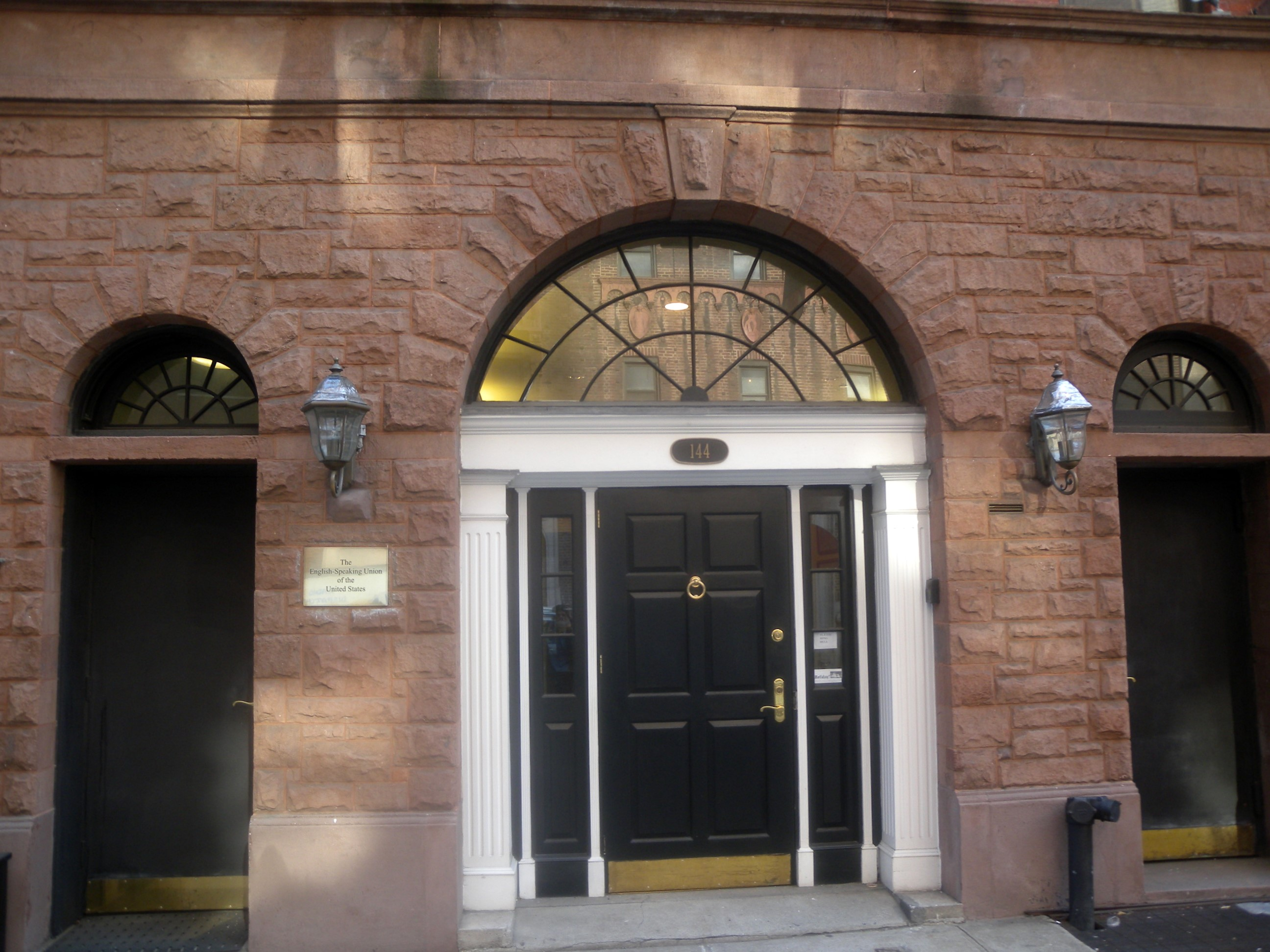 Looking south across 39th at English Speaking Union on a cloudy afternoon.